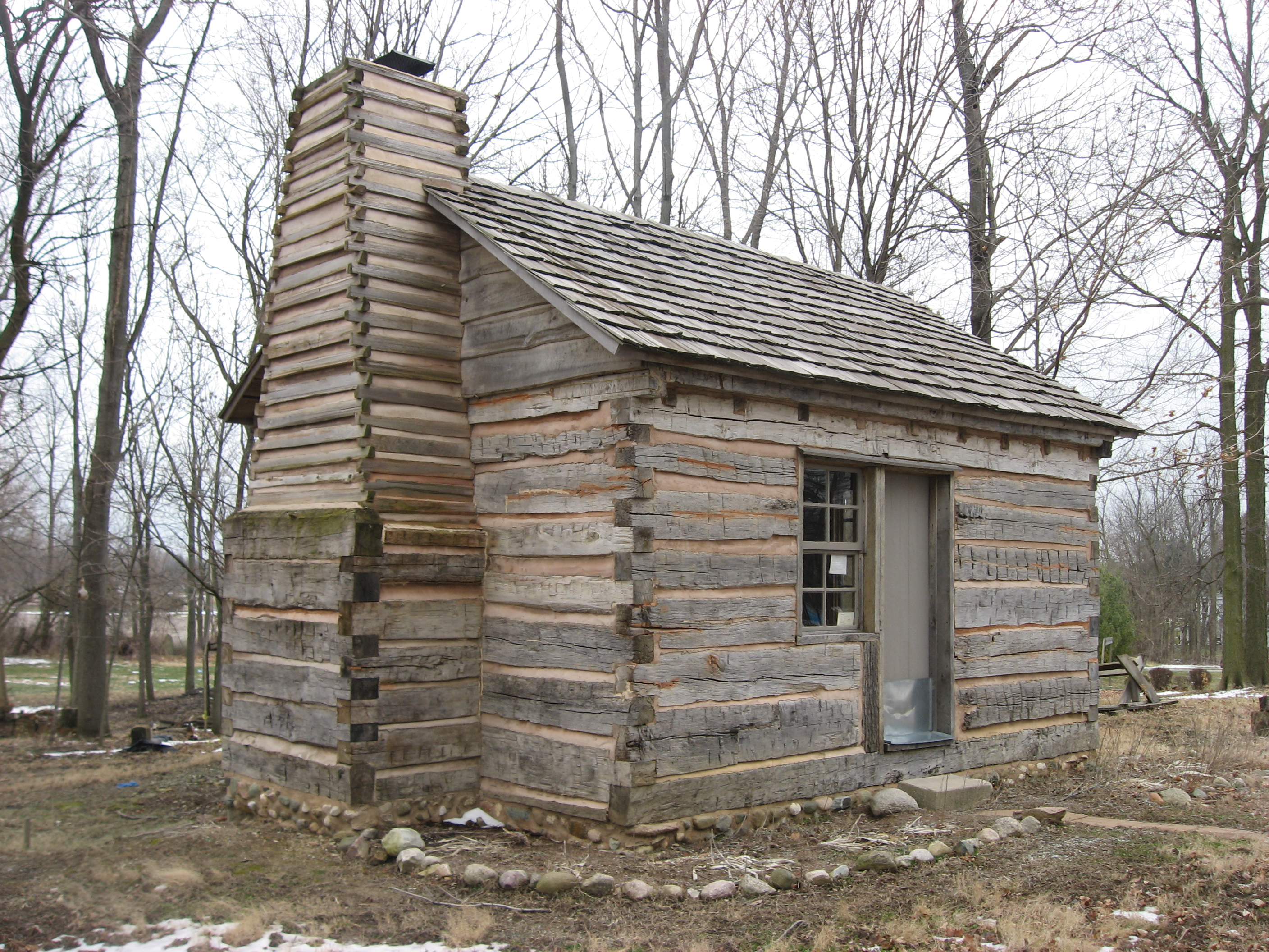 Southern and western sides of the George Boxley Cabin, located on Pioneer Hill north of the junction of First and Main Streets in Sheridan, Indiana, United States. Built in 1828 and the home of George Boxley, it is listed on the National Register of Historic Places.